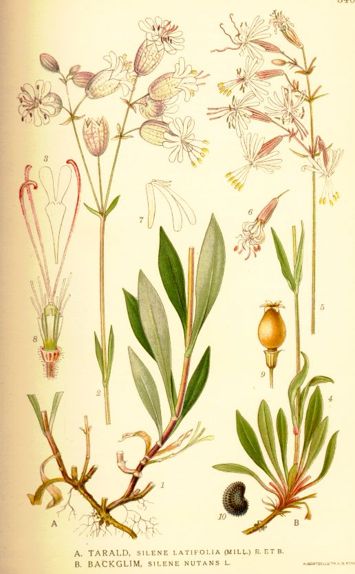 Silene vulgaris and Silene nutans